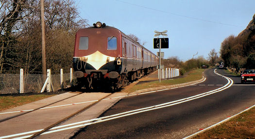 Umbra level crossing near Downhill